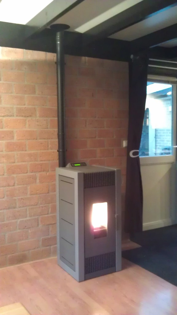 European type pellet stove